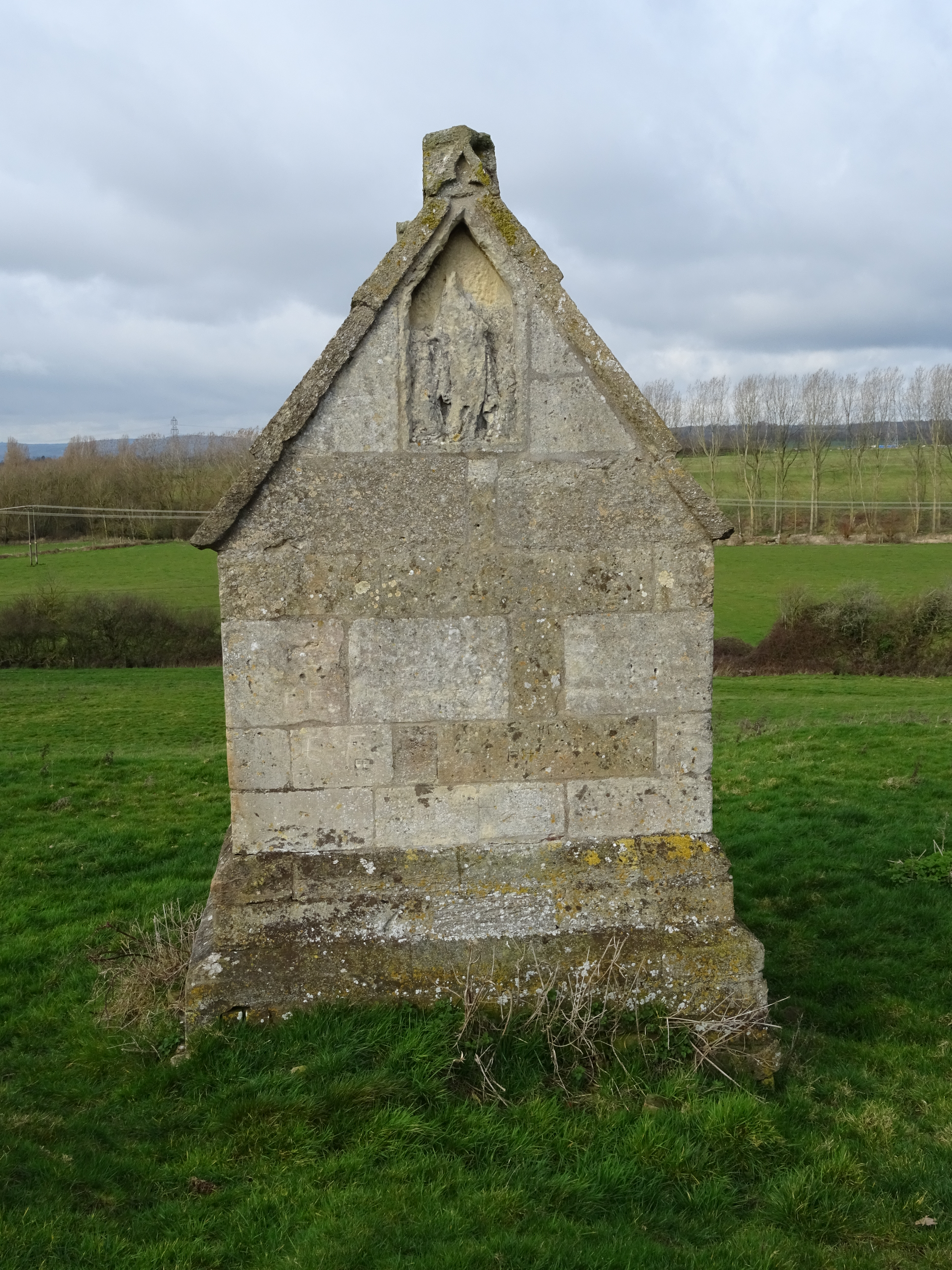 Photograph of Our Lady's Well in Hempsted